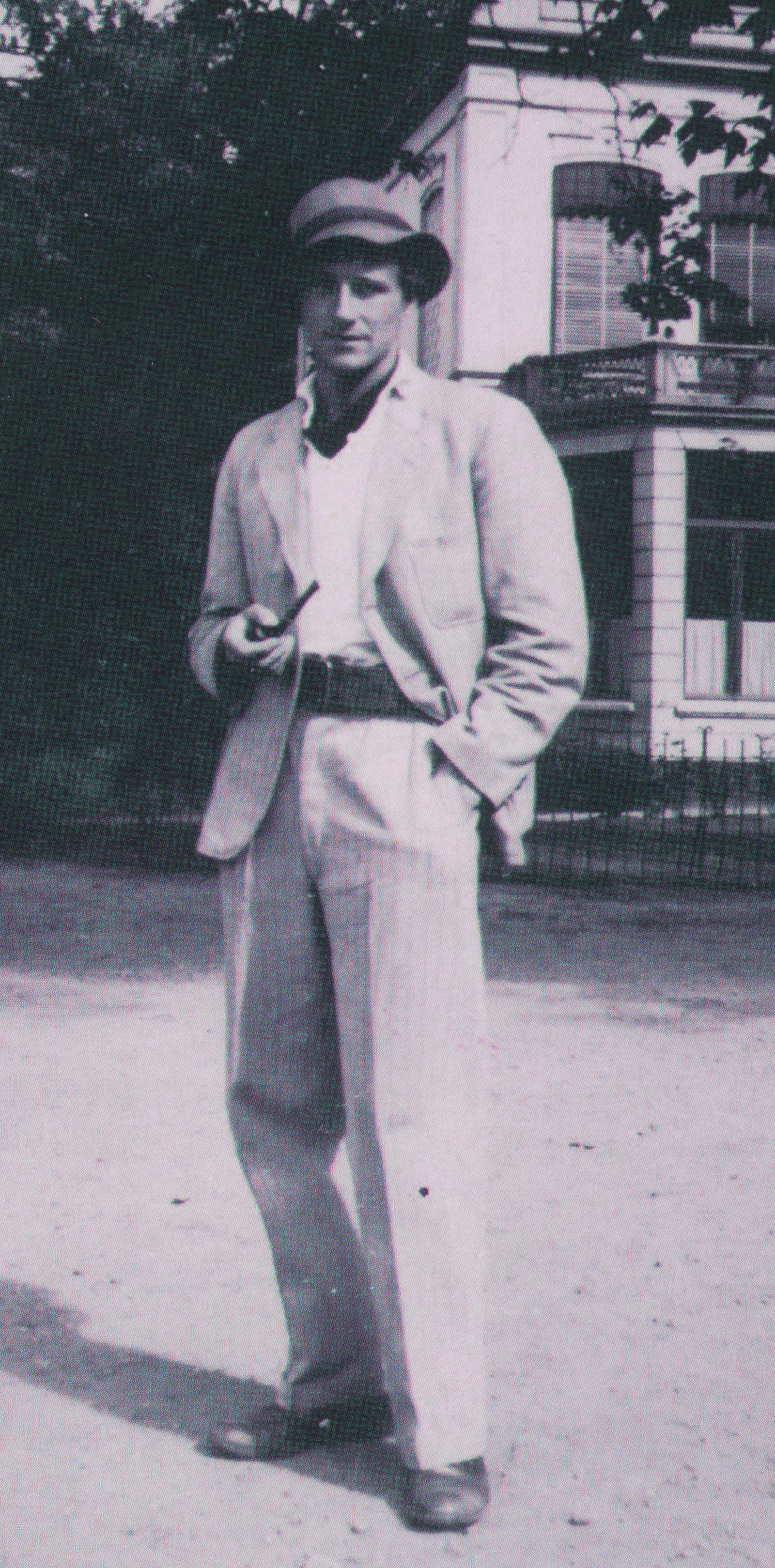 Photo is a detail of the poster for the exposition "Anton Heyboer - De Haarlemse Jaren", 23 November 2012- 19 May 2013 Historisch Museum Haarlem, Netherlands